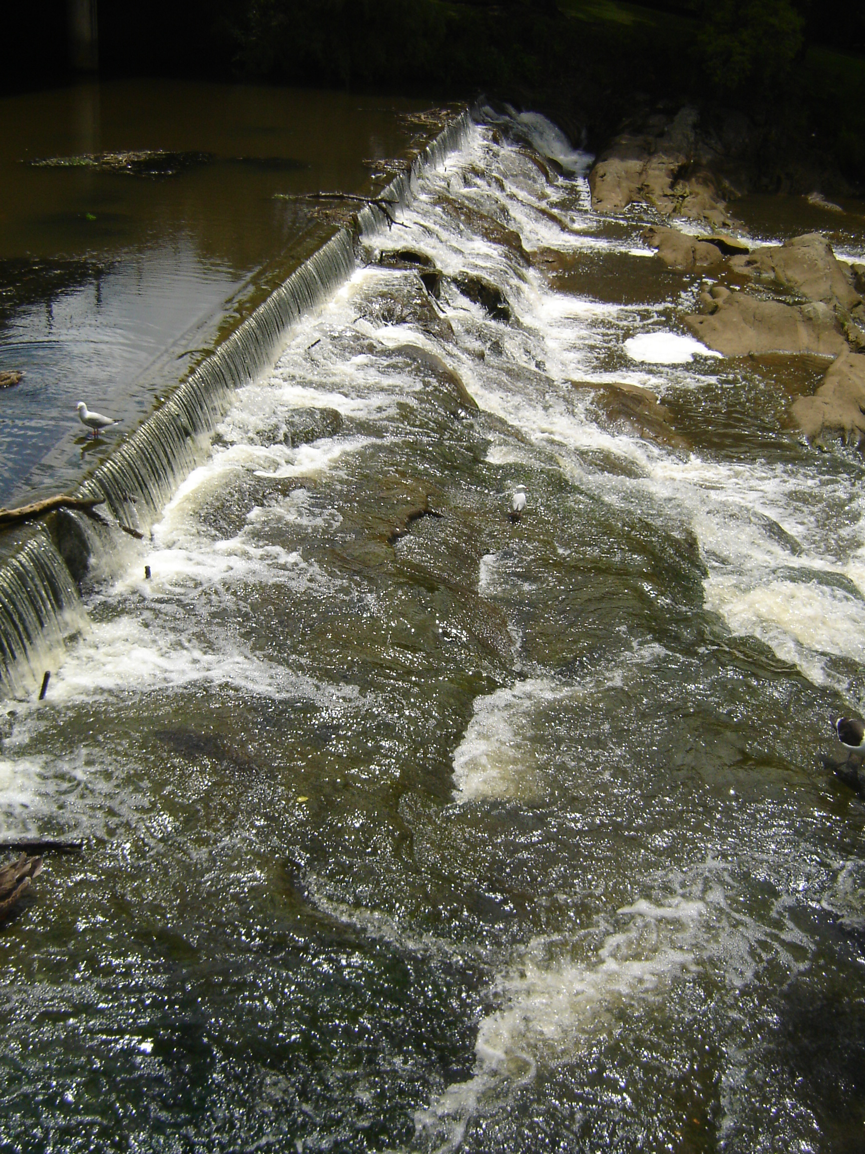 The weir in Warkworth, New Zealand, photographed by DO'Neil.